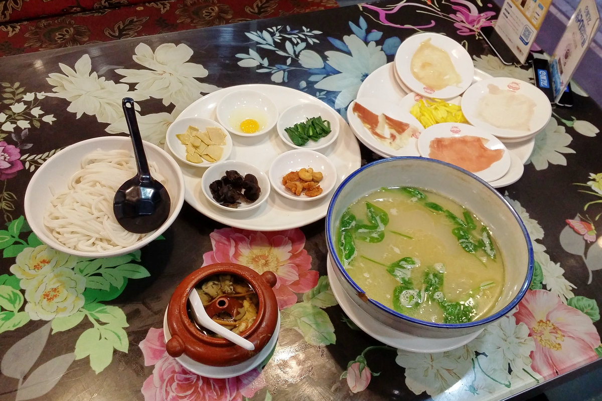 "Jinshi" style Crossing the Bridge Noodle (CNY32) sold at Yunnan Qian Xiang Yuan Rice Noodle in Kunming